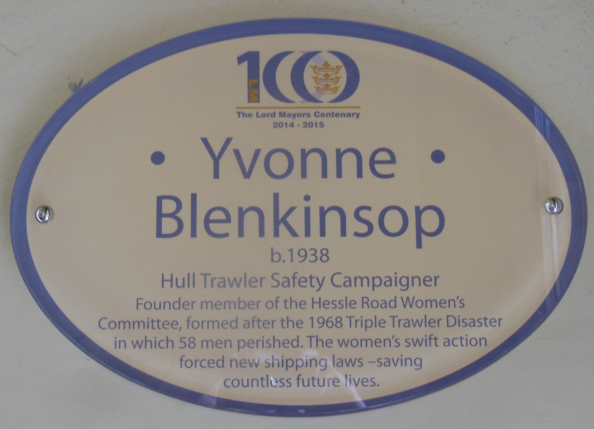 Plaque to Yvonne Blenkinsop At Hull's Maritime Museum. One of 100 Lord Mayors Centenary Plaques to be unveiled in the coming year.